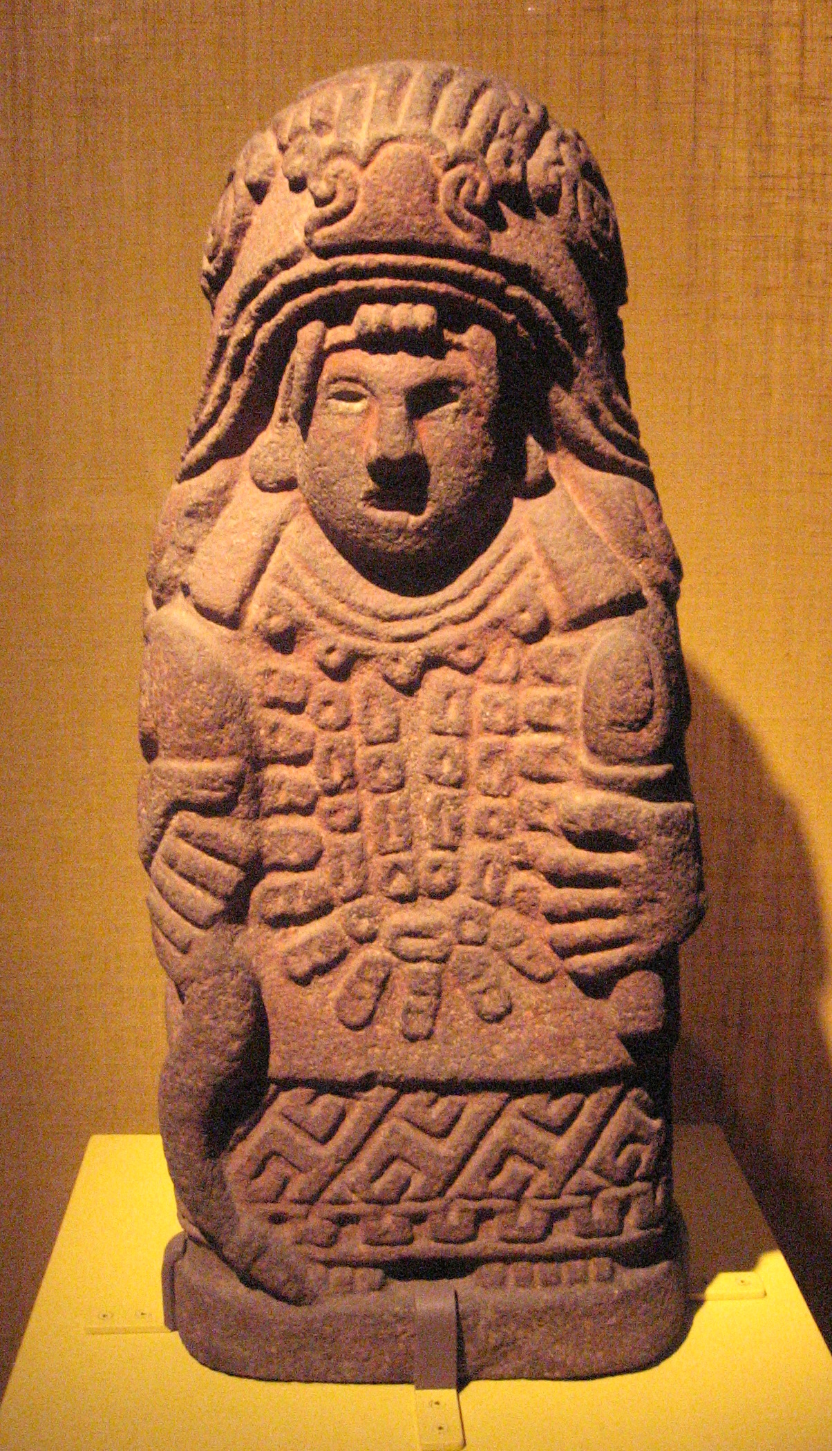 A stone statue of Cihuacoatl, an Aztec fertility goddess. Here she emerges from the mouth of a serpent holding an ear of maize in her left hand. Discovered in Cuernavaca. Dated 1325 - 1521 CE. Owned by the Museo Nacional Antropologia.